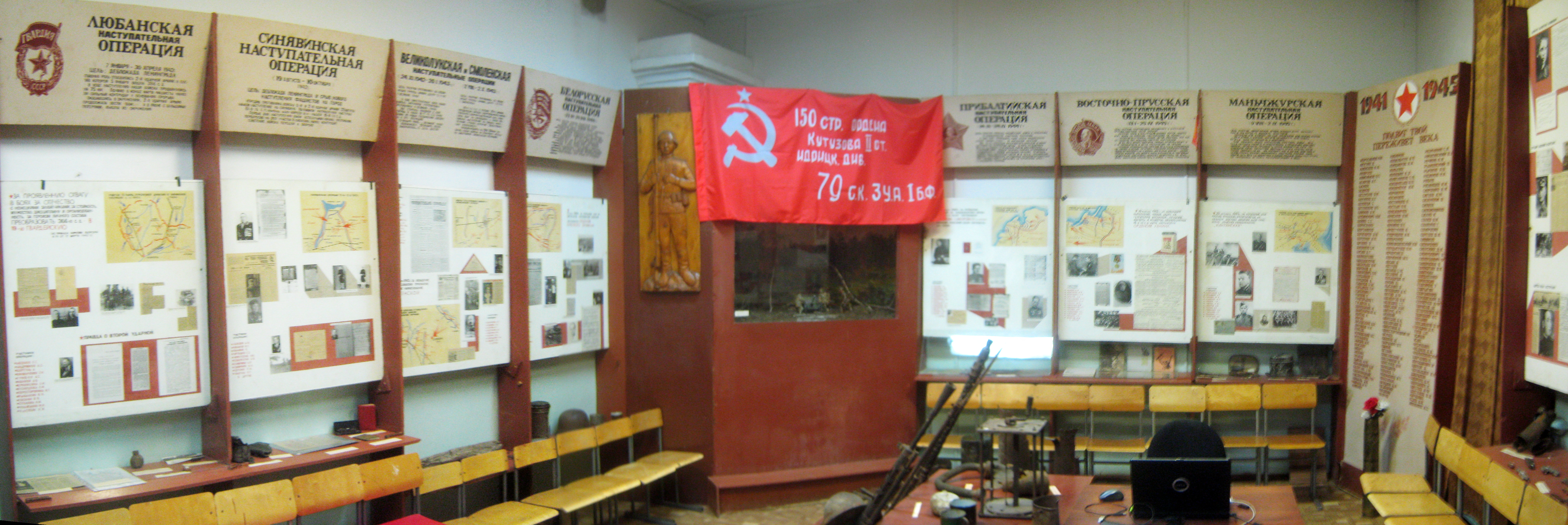 Музей 19 дивизии в школе 32 Томска